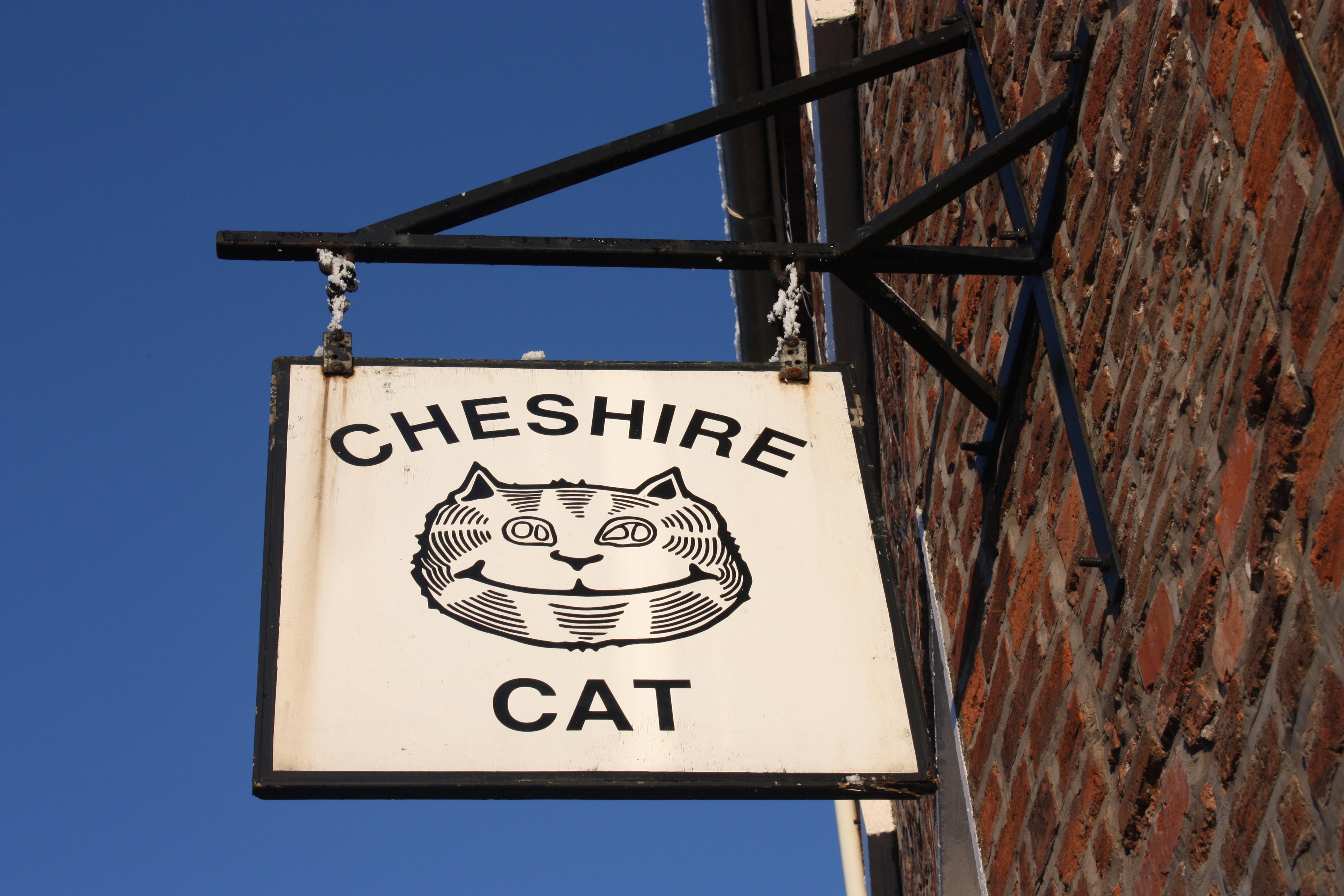 Cheshire Cat shop, 32 Main Street, Hillsborough, County Down, Northern Ireland, December 2010